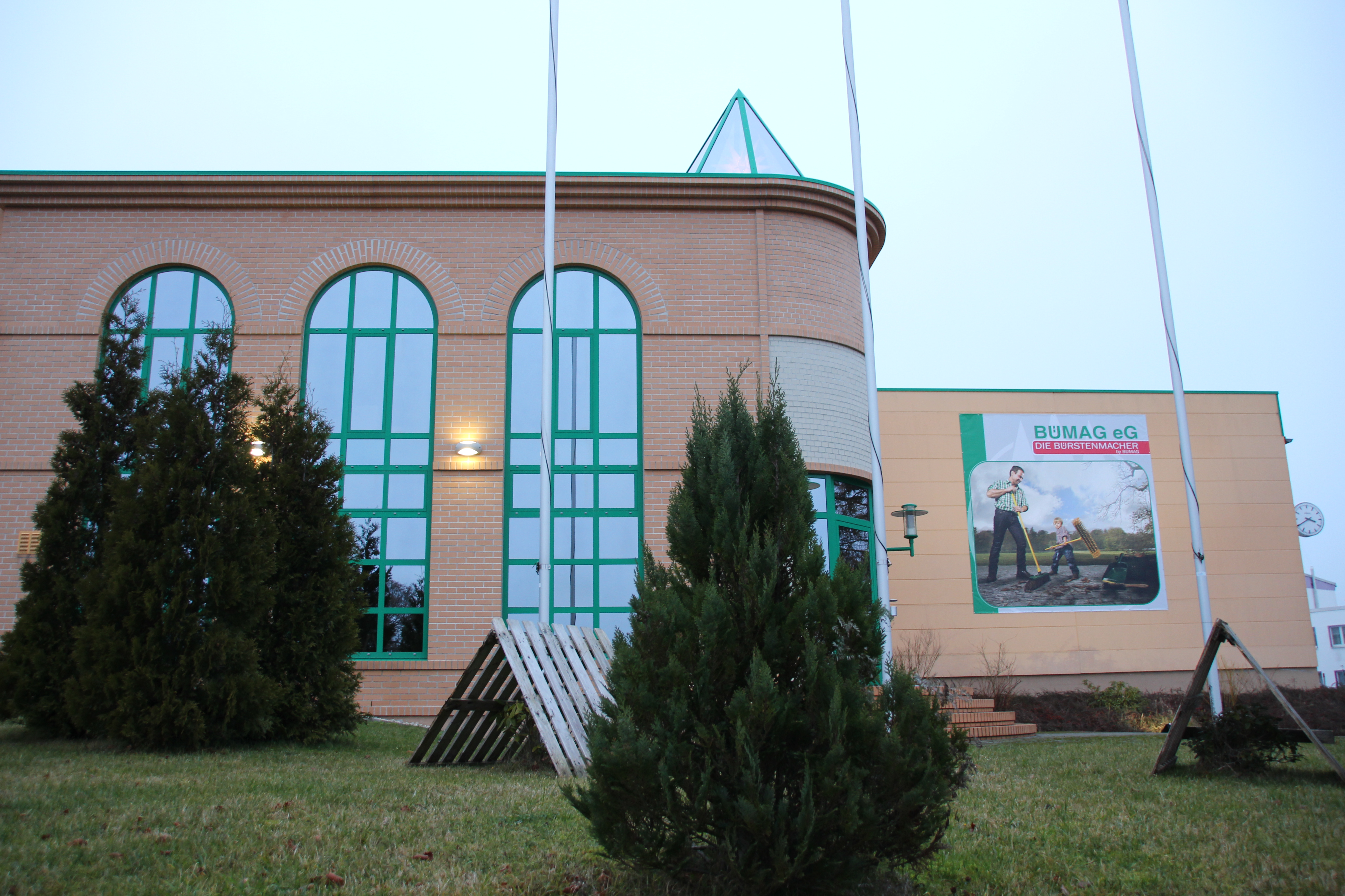 Schönheide in the Ore Mountains: The district Ascherwinkel is the most western part of the village.